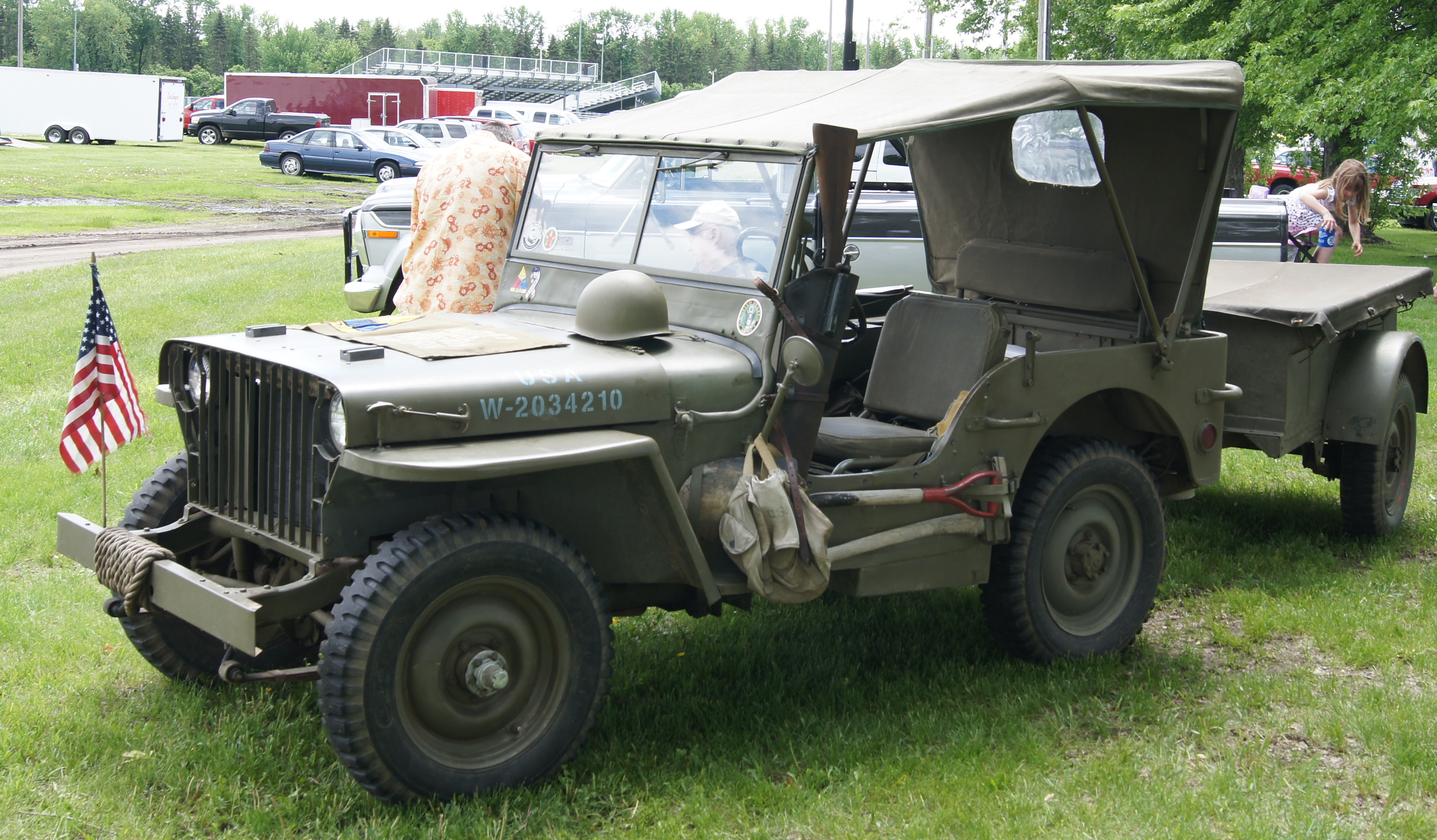 41 Willys Jeep MB